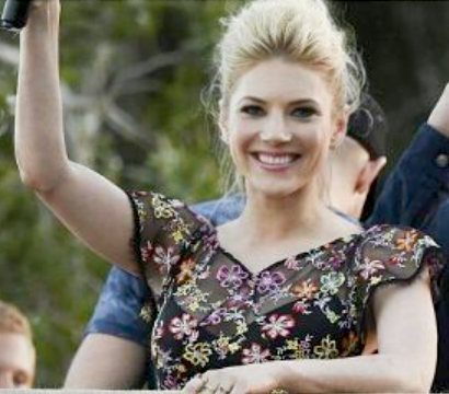 Katheryn Winnick at San Diego CC 2017.